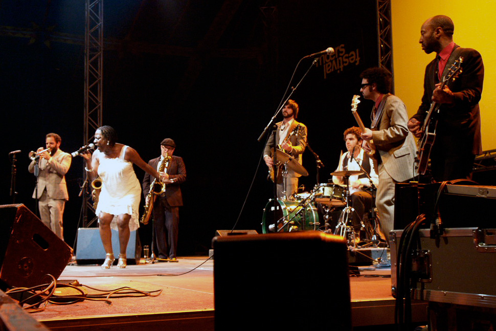 Sharon Jones & Dap Kings at moers festival 2007 self made/own work, may 25, 2007 photo: nomo/michael hoefner